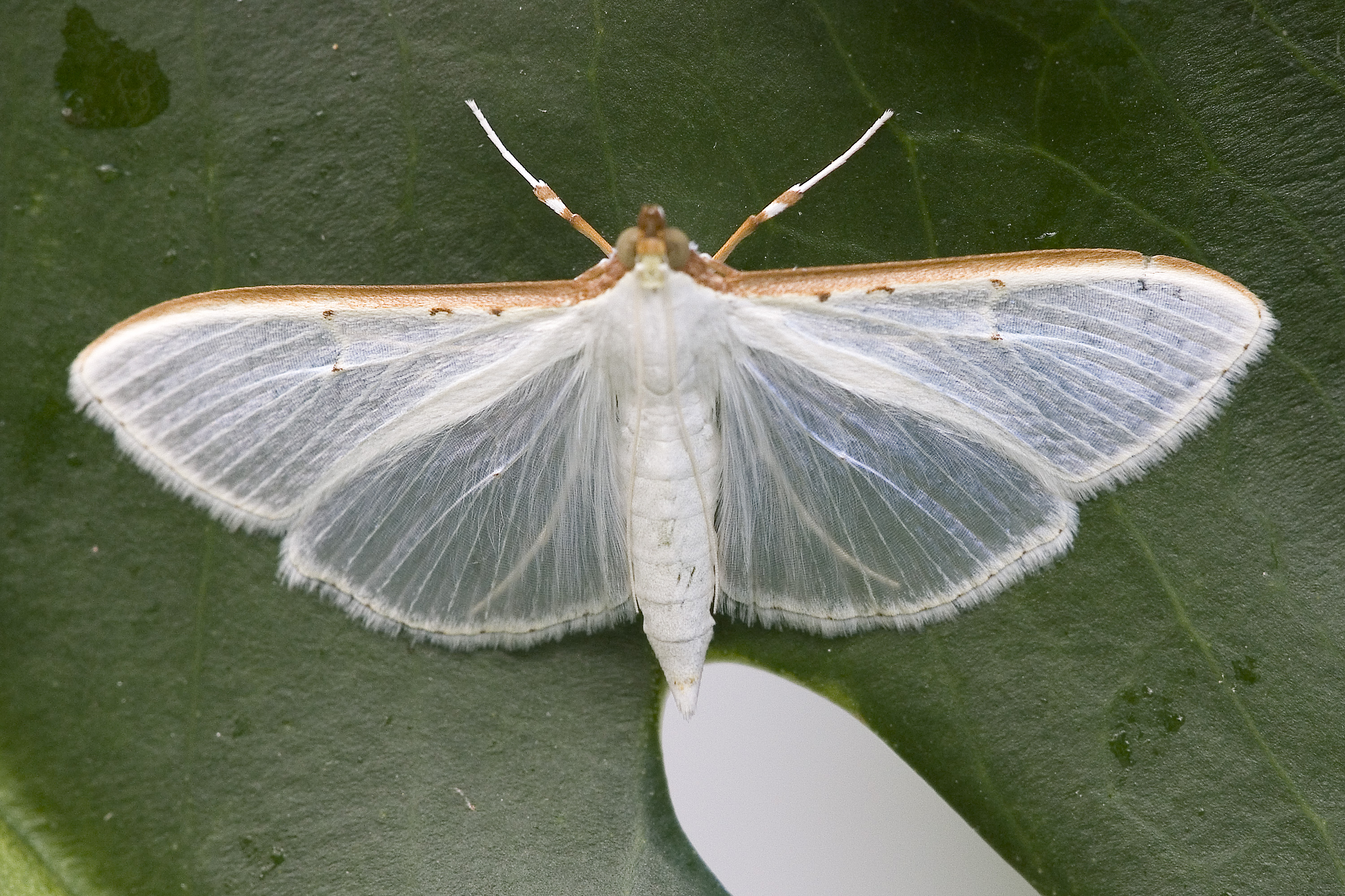 Palpita vitrealis (Rossi, 1794) Many thanks to Axel Steiner and Jürgen Rodeland for determination help. Location: Jardim do Mar, Madeira, Portugal 5/180L f8 Film / Speed: ISO 800 Comment